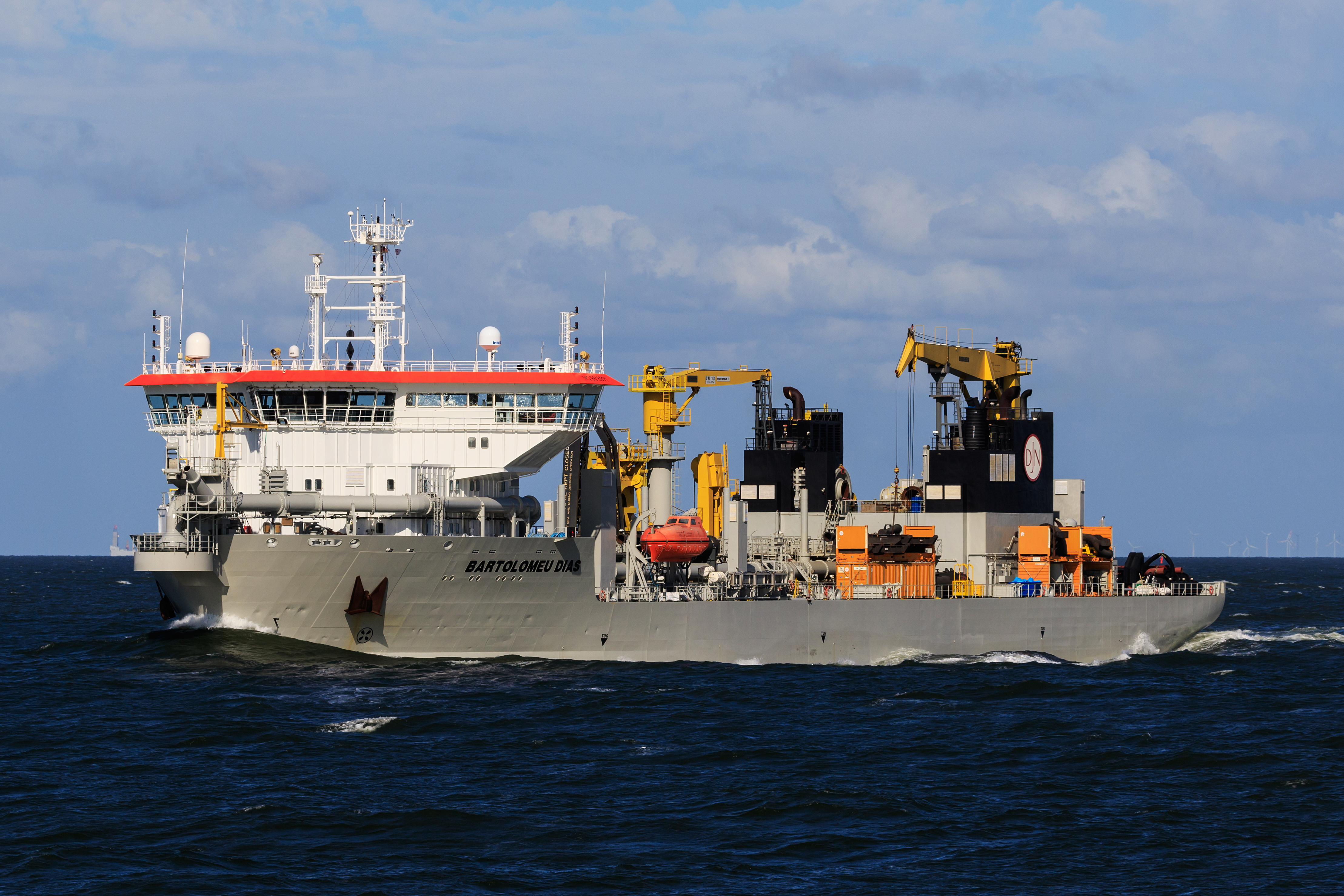 Dredge ship «Bartolomeu Dias» (2013) in the German North Sea between Heligoland and Cuxhaven